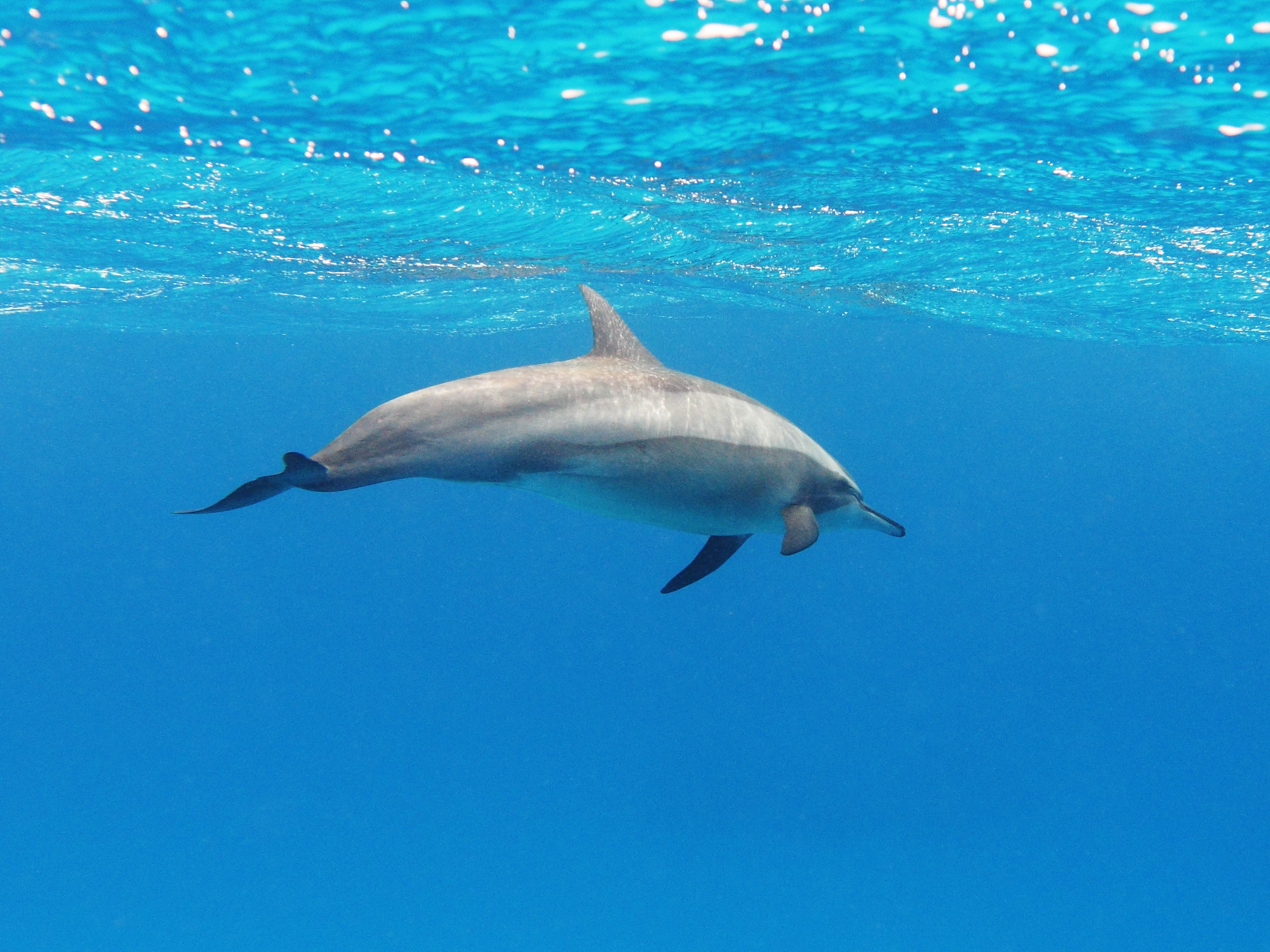 A spinner dolphin (Stenella longirostris) in the Red Sea